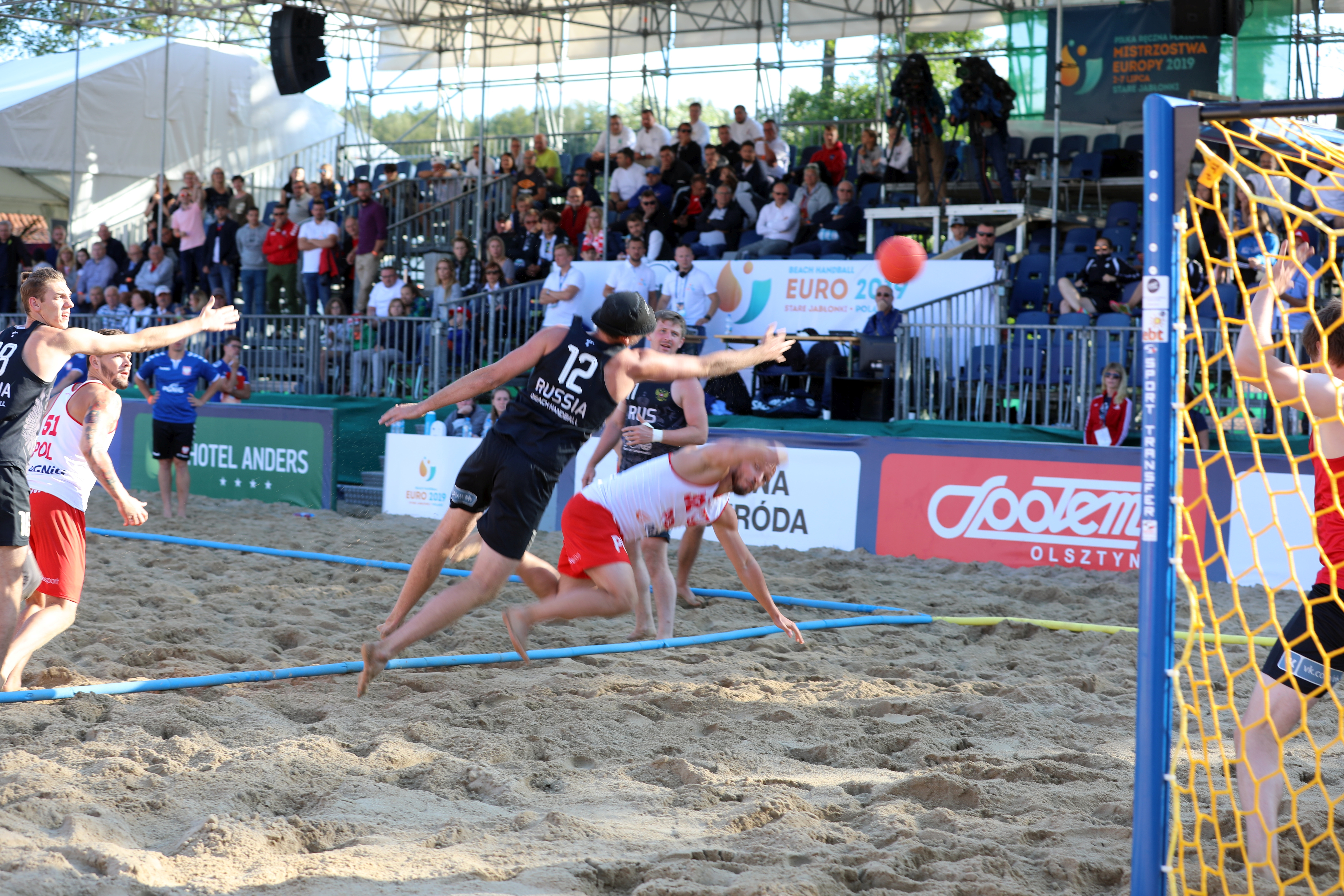 Beach handball Euro; Day 4: 5 July 2019 – Quarter Final Men – Russia-Poland 2:0 (30:22, 19:18)